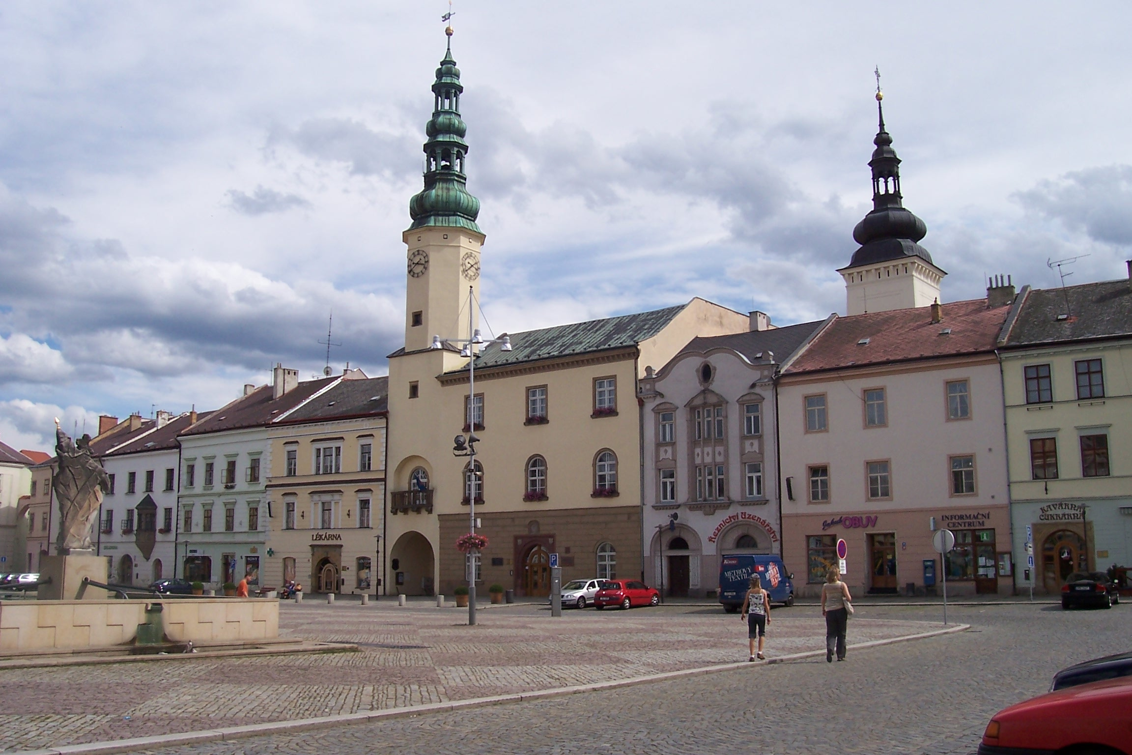 Moravská Třebová in Svitavy District, Czech Republic. Masaryk-square and town hall.